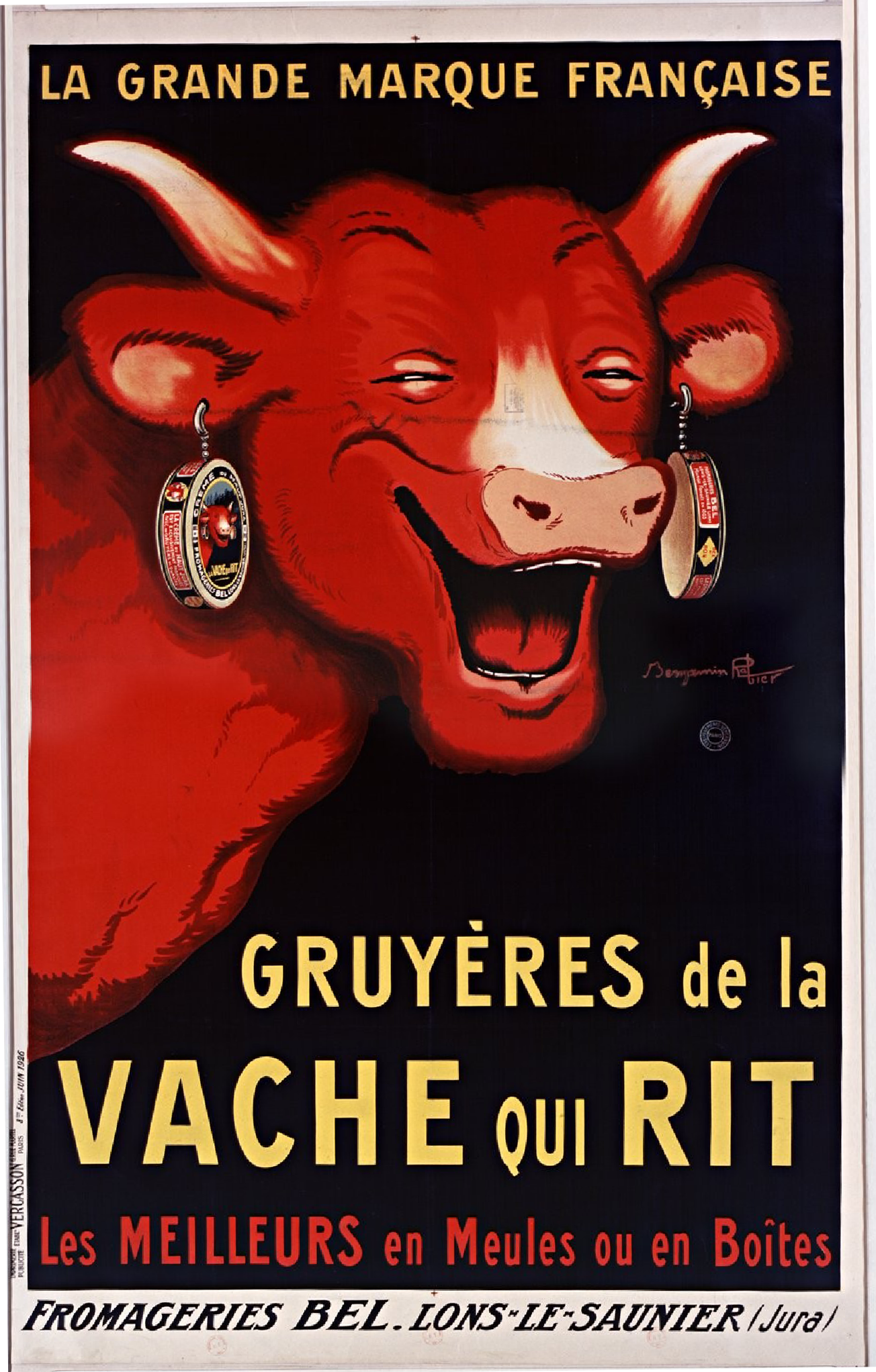 Poster by Benjamin Rabier for "La Vache qui Rit" cheese. Extracted from the pdf file at the BNF.